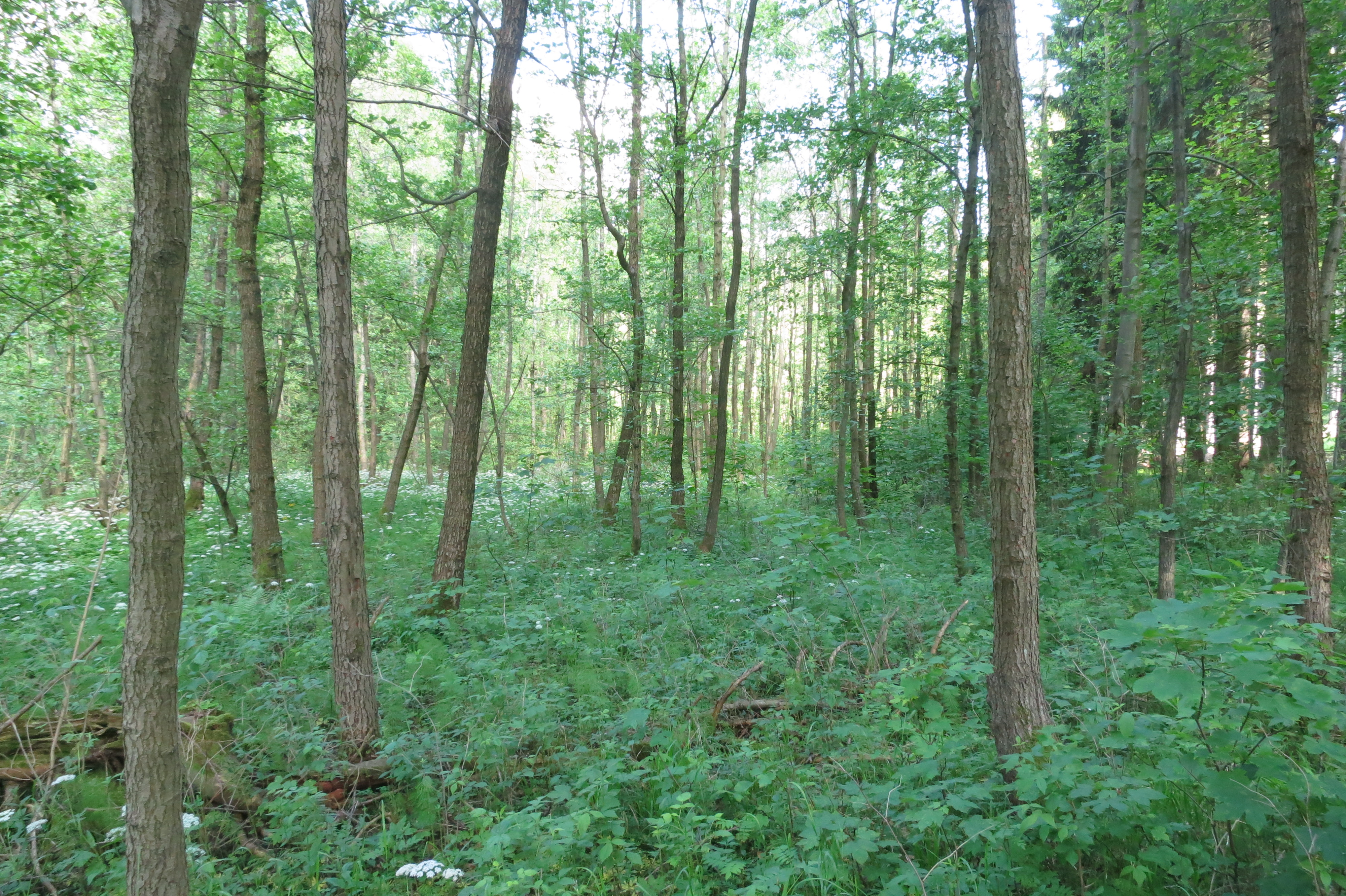 Meadow in Blatná hráz reserve, Třebíč District.